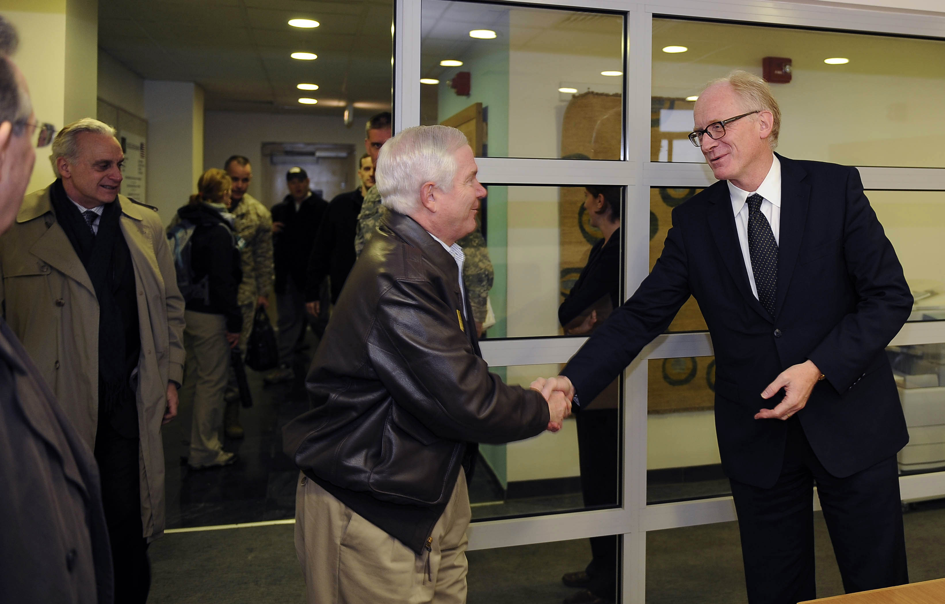 U.S. Defense Secretary Robert M. Gates, left, meets with Kai Eide, left, the U.N. Special Representative to Afghanistan, at the U.S. Embassy in Kabul, Dec. 9, 2009.